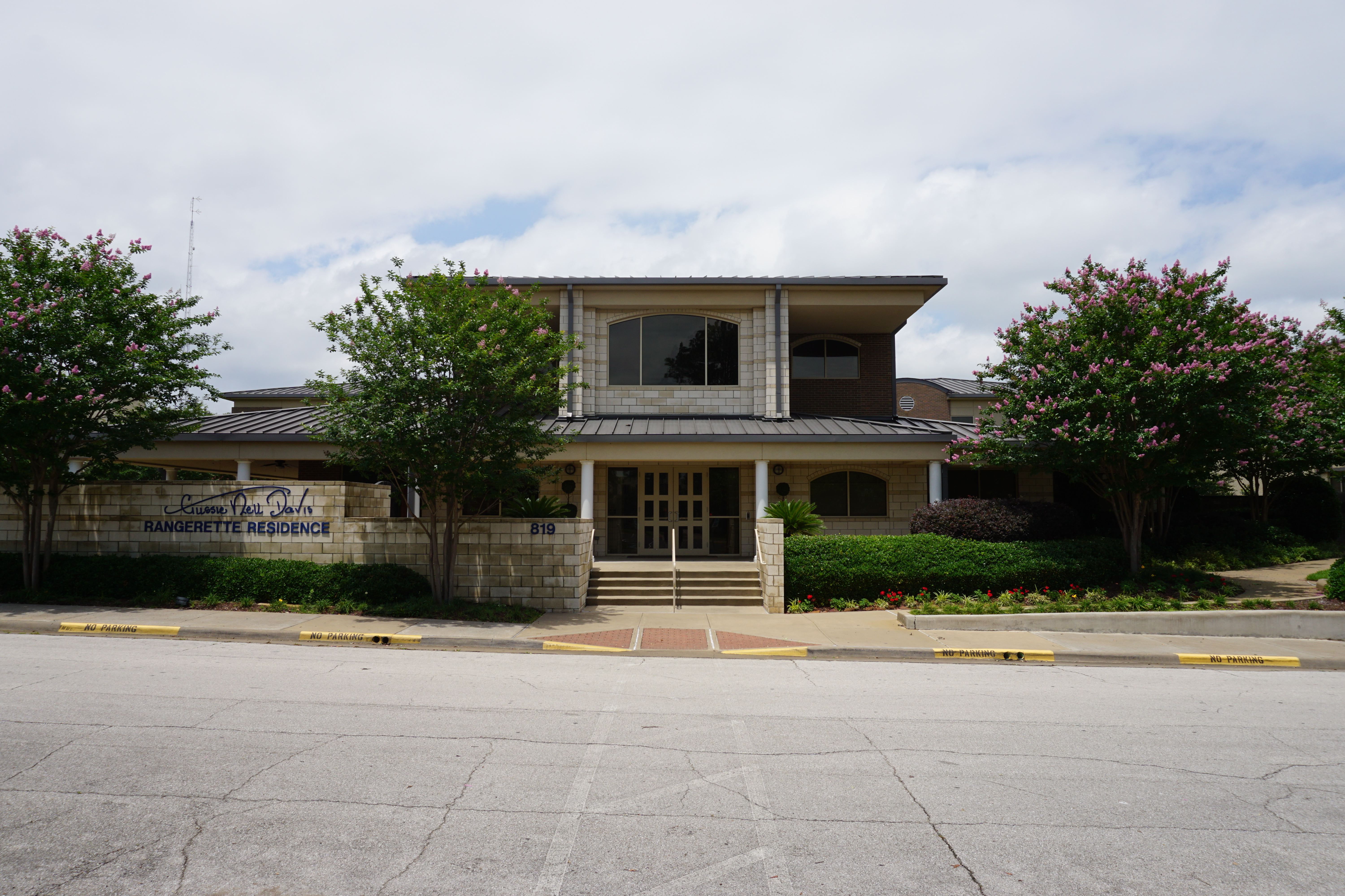 The Gussie Nell Davis Rangerette Residence on the campus of Kilgore College in Kilgore, Texas (United States).